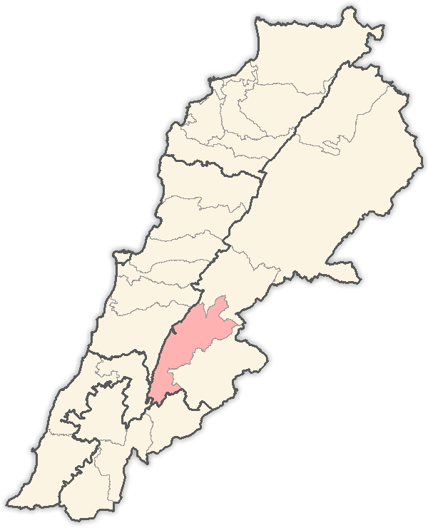 Map of districts in Lebanon, highlighting the West Bekaa District